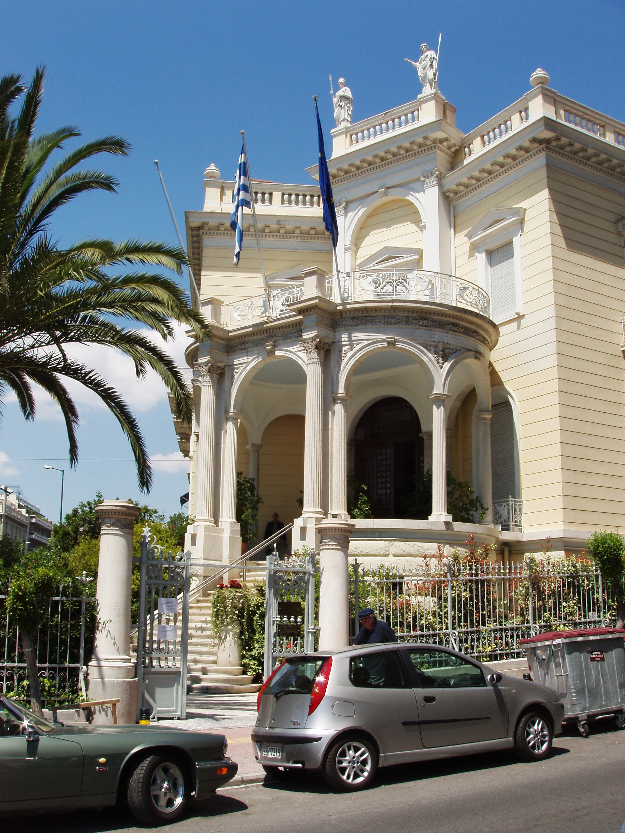 Stathatos mansion, SE view from Irodotou Str.